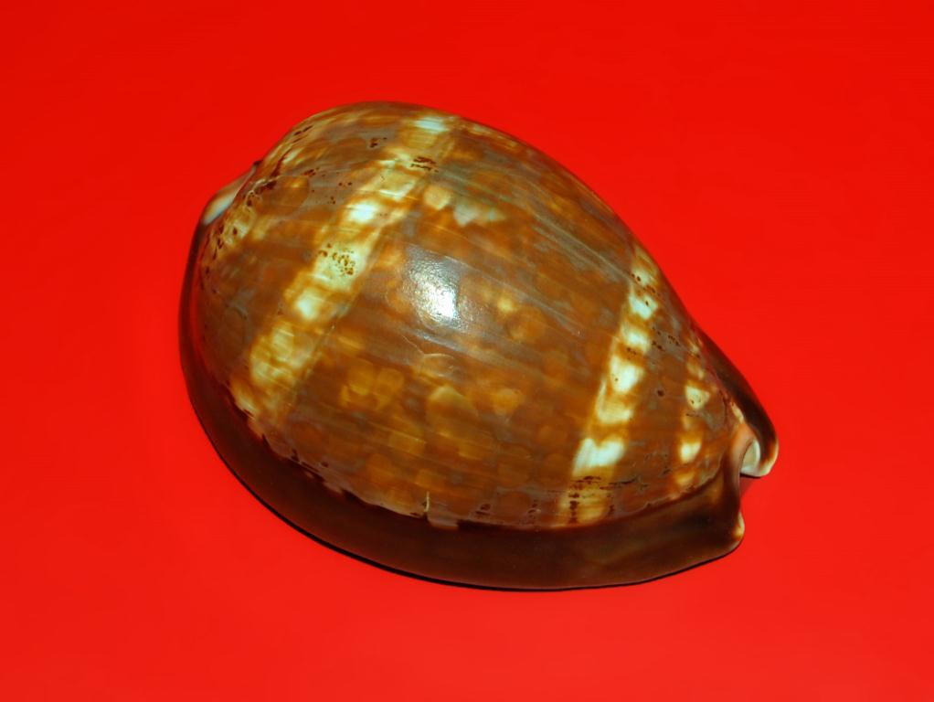 Mauritia mauritiana - juvenile form - Hawaii